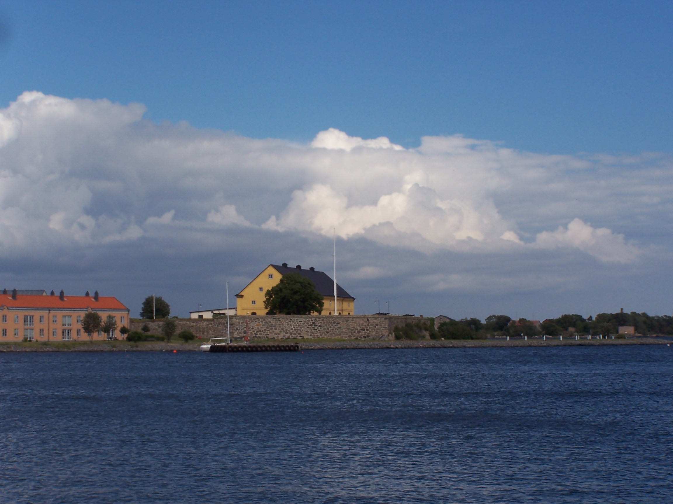 Bastion Kungshall, Stumholmen, Karlskrona